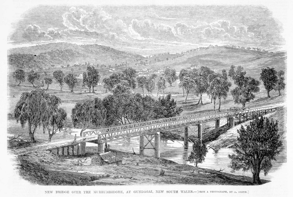 Etching of the new bridge from a photograph by Mr. A. Smith, jun., of Adclong. Published in The Illustrated Australian News for Home Readers 26 November 1867